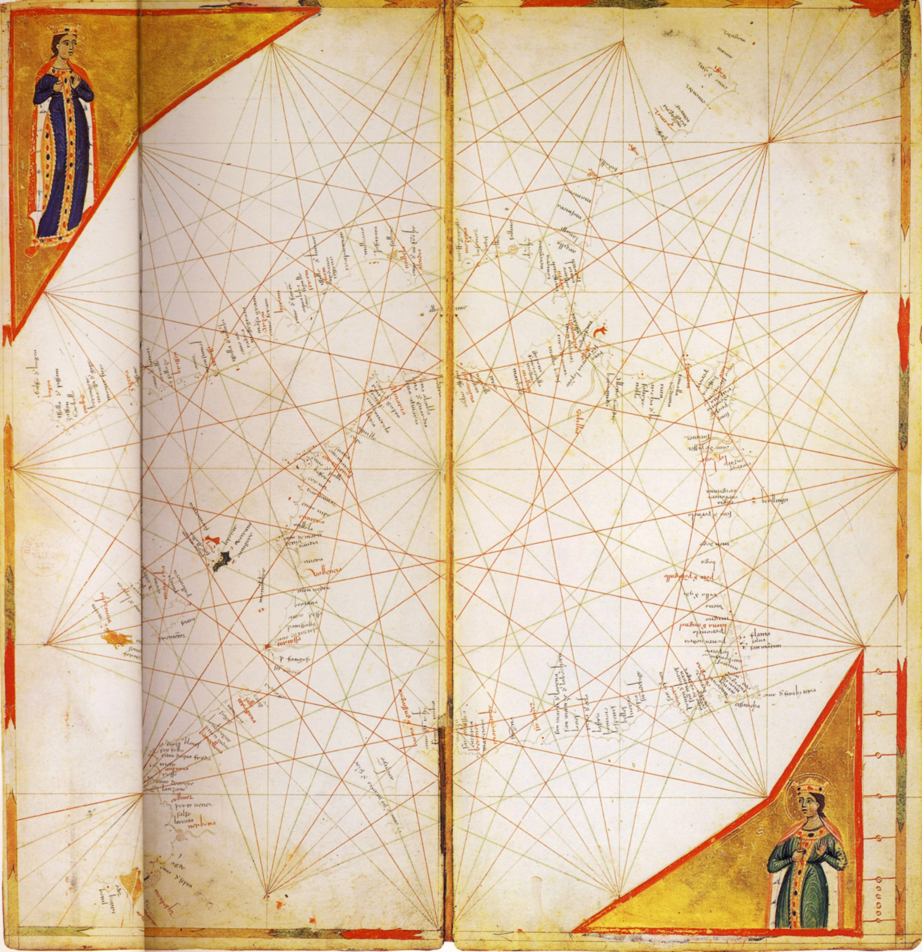 Map of the western Mediterranean from the seventh sheet of the atlas signed by Genoese cartographer Pietro Vesconte, but undated (est. c.1321), held by the Bibliothèque municipale de Lyon in Lyon, France.